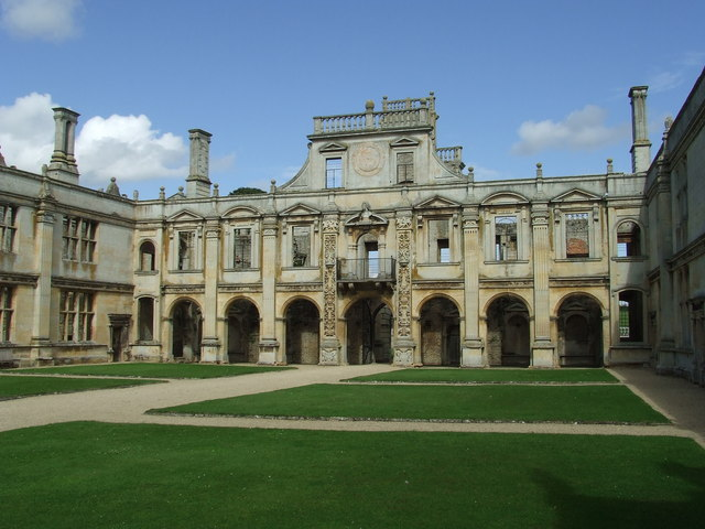 Kirby Hall Kirby Hall Deene, Northamptonshire.